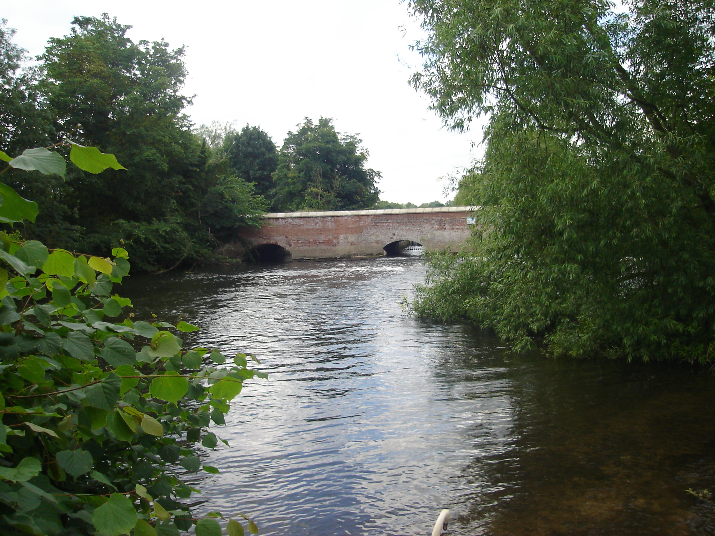 Picture of the River Wensum at Hellesdon mill Norfolk